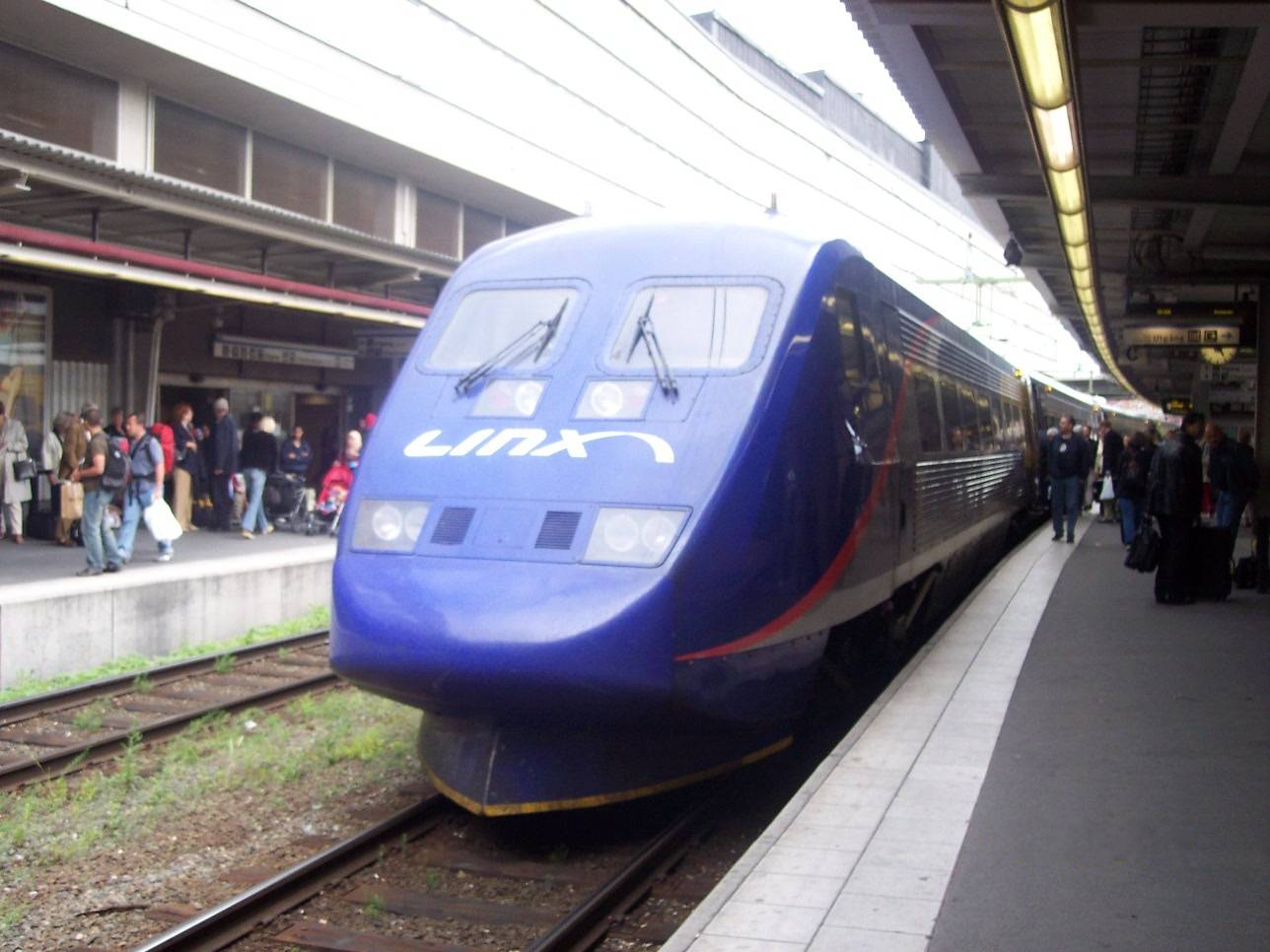 a Linx X2 train in the Stockholm main station, most likely on the Stockholm–Oslo route.